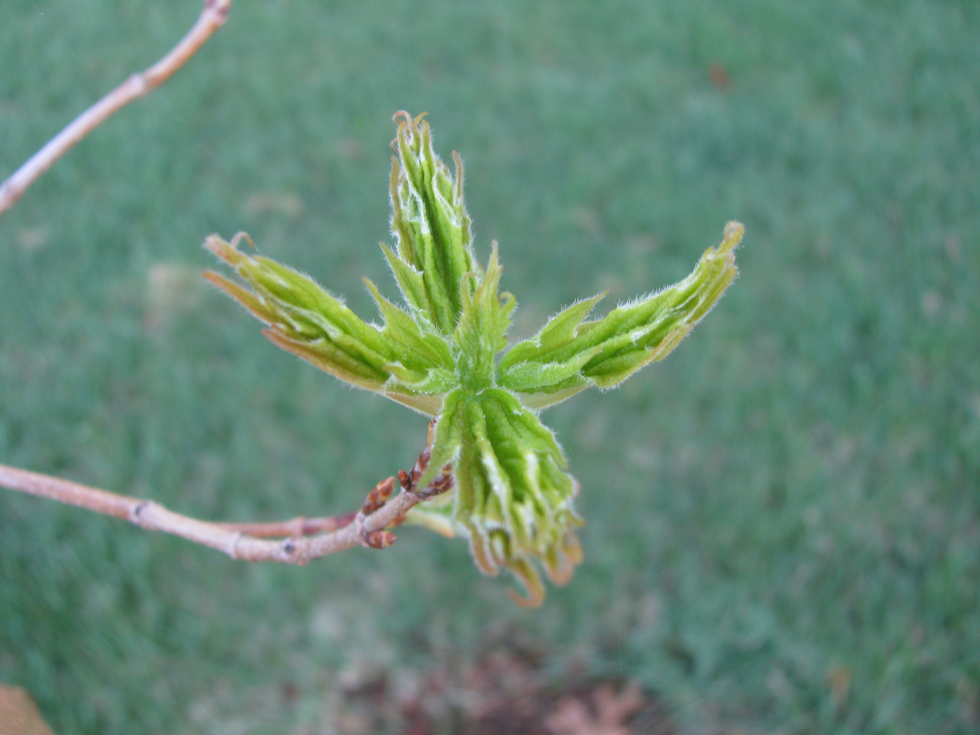 Young leaves on an Acer saccharum en commonly know as the Sugar Mapleen tree.